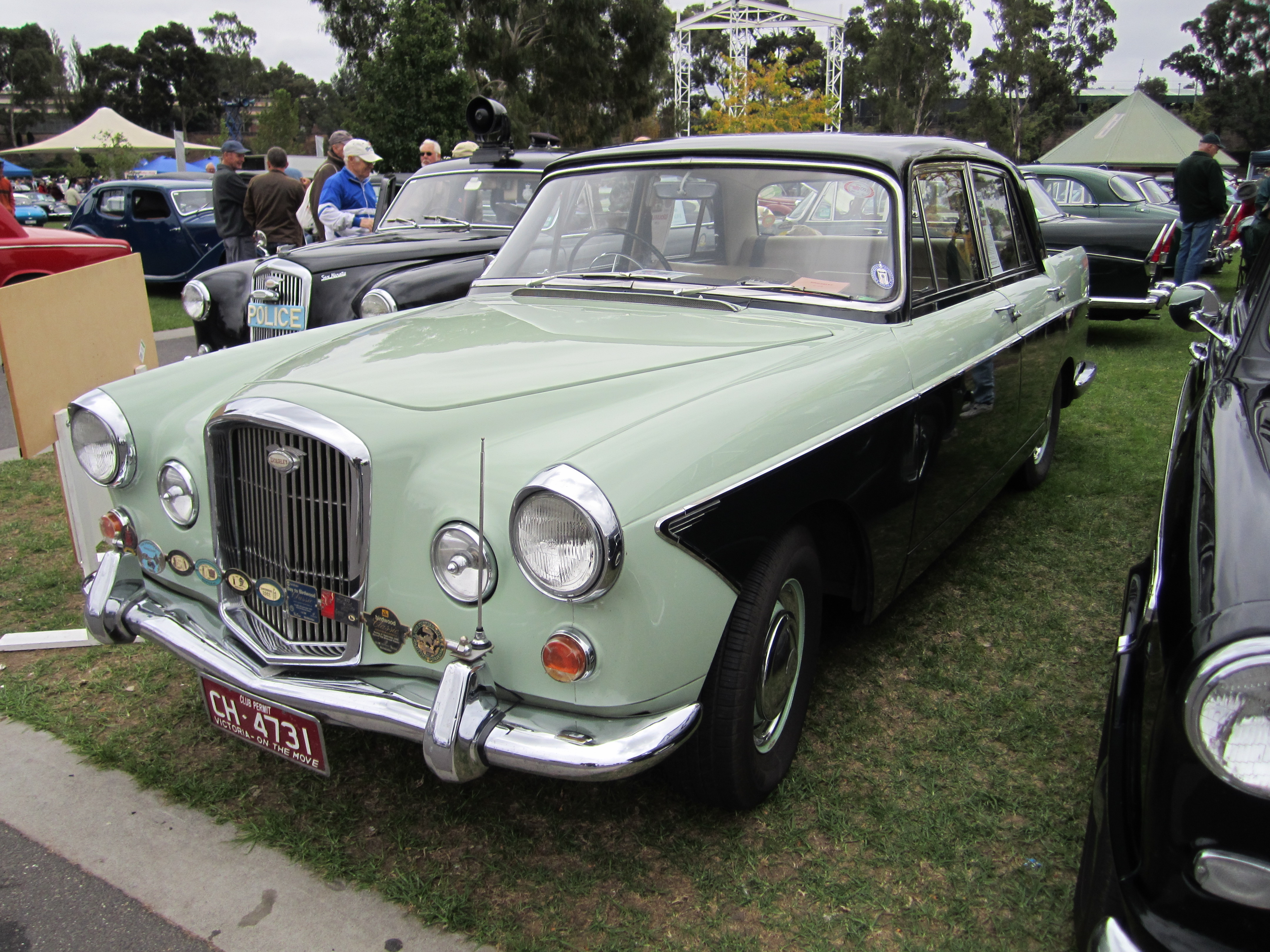 Built from 1959-61. Closely related to the Austin A99 Westminster. Engine; 2900cc 6 cyl